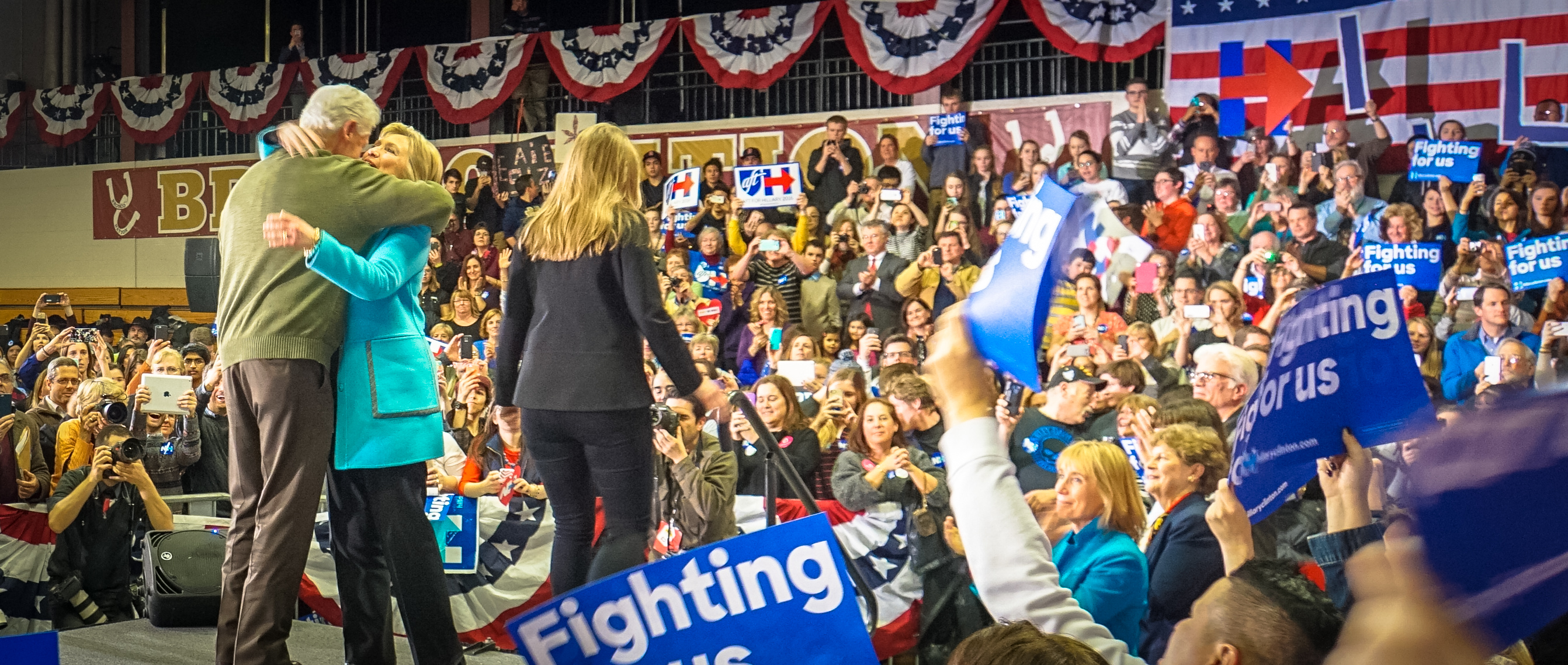 2016.02.08 Presidential Primary, Manchester, NH USA 02720